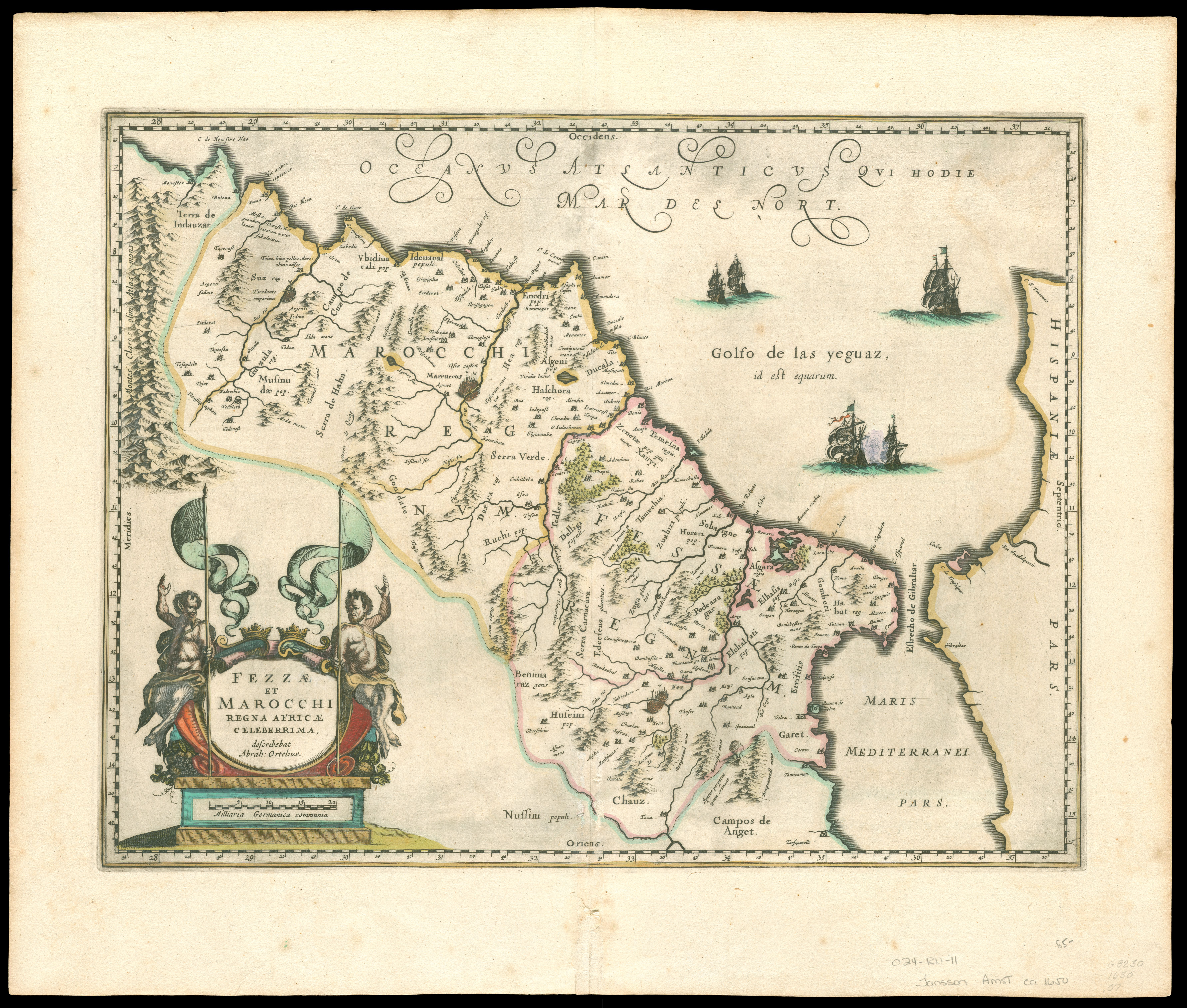 Fezzæ et Marocchi regna Africæ celeberrima Imperium Fessanum Regnum Maurocanum Relief shown pictorially. Oriented with north to the right. Includes decorative title cartouche. Boundaries hand-colored. Almost the same as W. J. Blaeu's map in: Theatrum orbis terarrum sive Atlas Novus ... (P.L. Phillips, A list of geographical atlases in the Library of Congress, v. III, 1914, p. 136) (Description from: North West University Library)